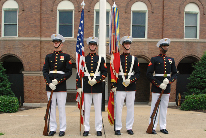 The United States Marine Corps Color Guard is unique. It includes the National Colors, carried by the Color Sergeant of the Marine Corps and is the only official Battle Color of the United States Marines. (Text by USMC)